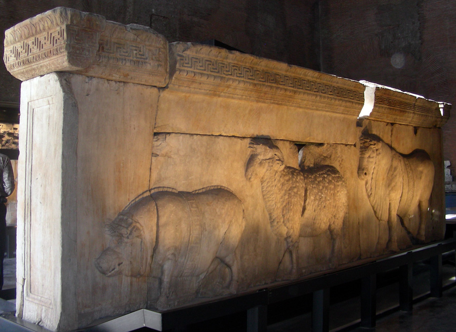 Rome, Roman Forum, Curia, interior, "Plutei di Traiano", back side, with suovetaurilia